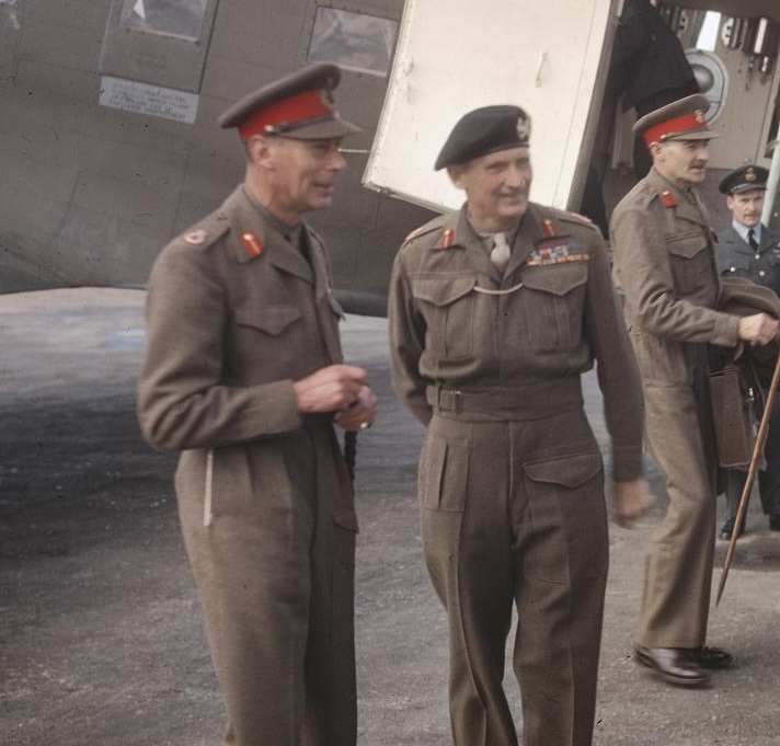 HM King George VI with Field Marshal Sir Bernard Montgomery, the Commander of the 21st Army Group, on the King's arrival in Holland.